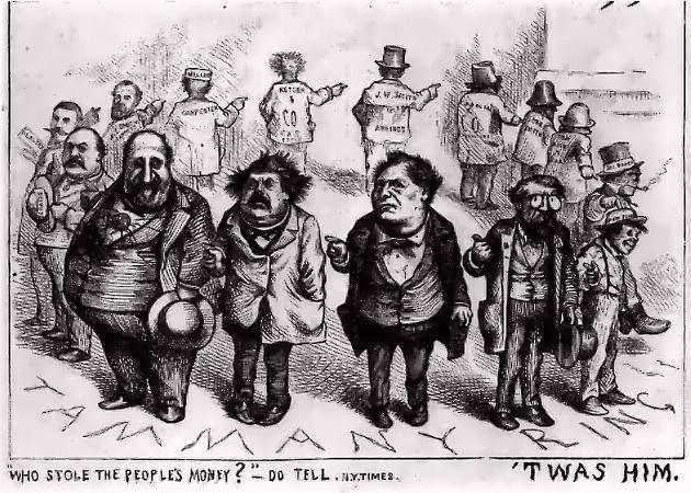 Boss Tweed and the Tammany Ring, caricatured by Thomas Nast.